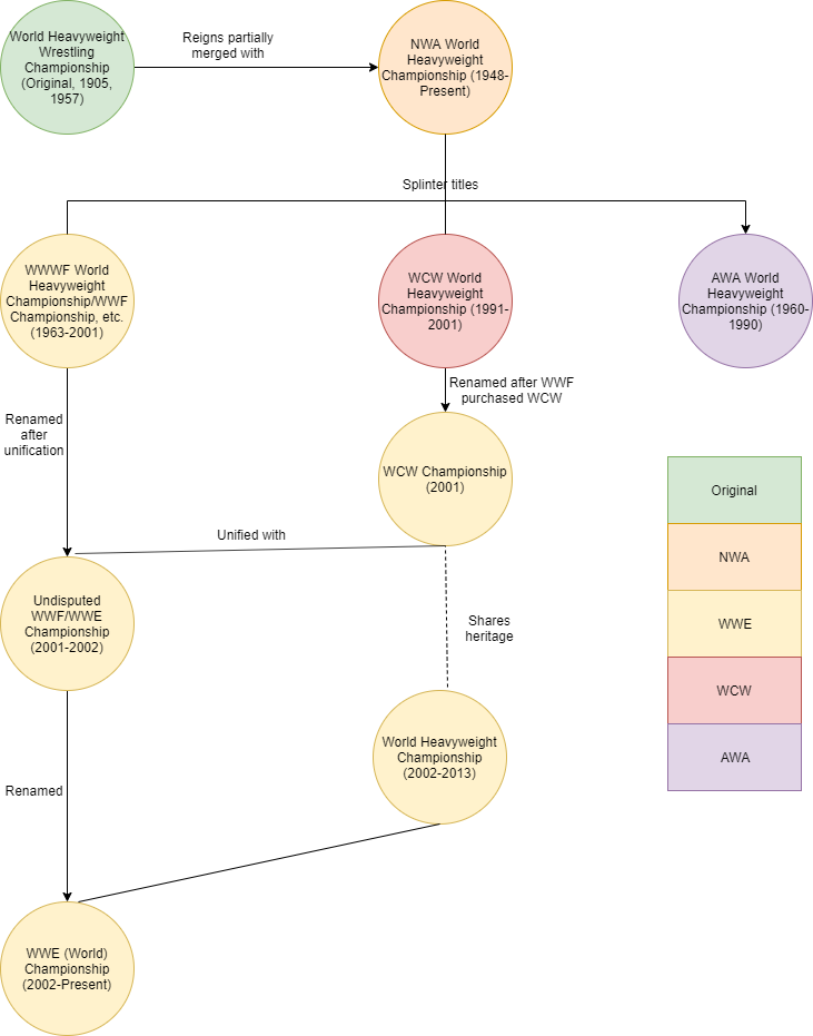 Pro wrestling driagram